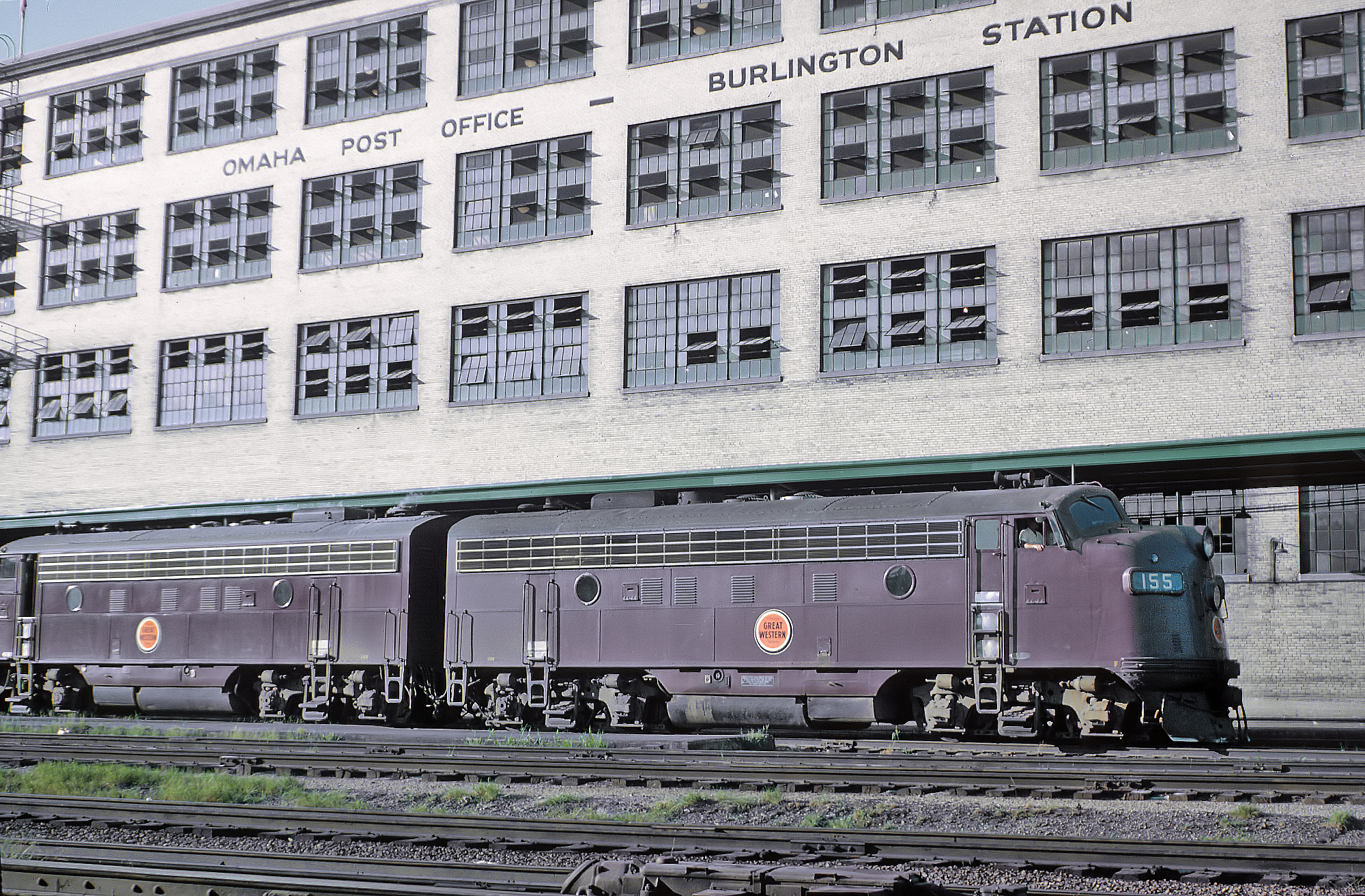 Roger Puta photograph